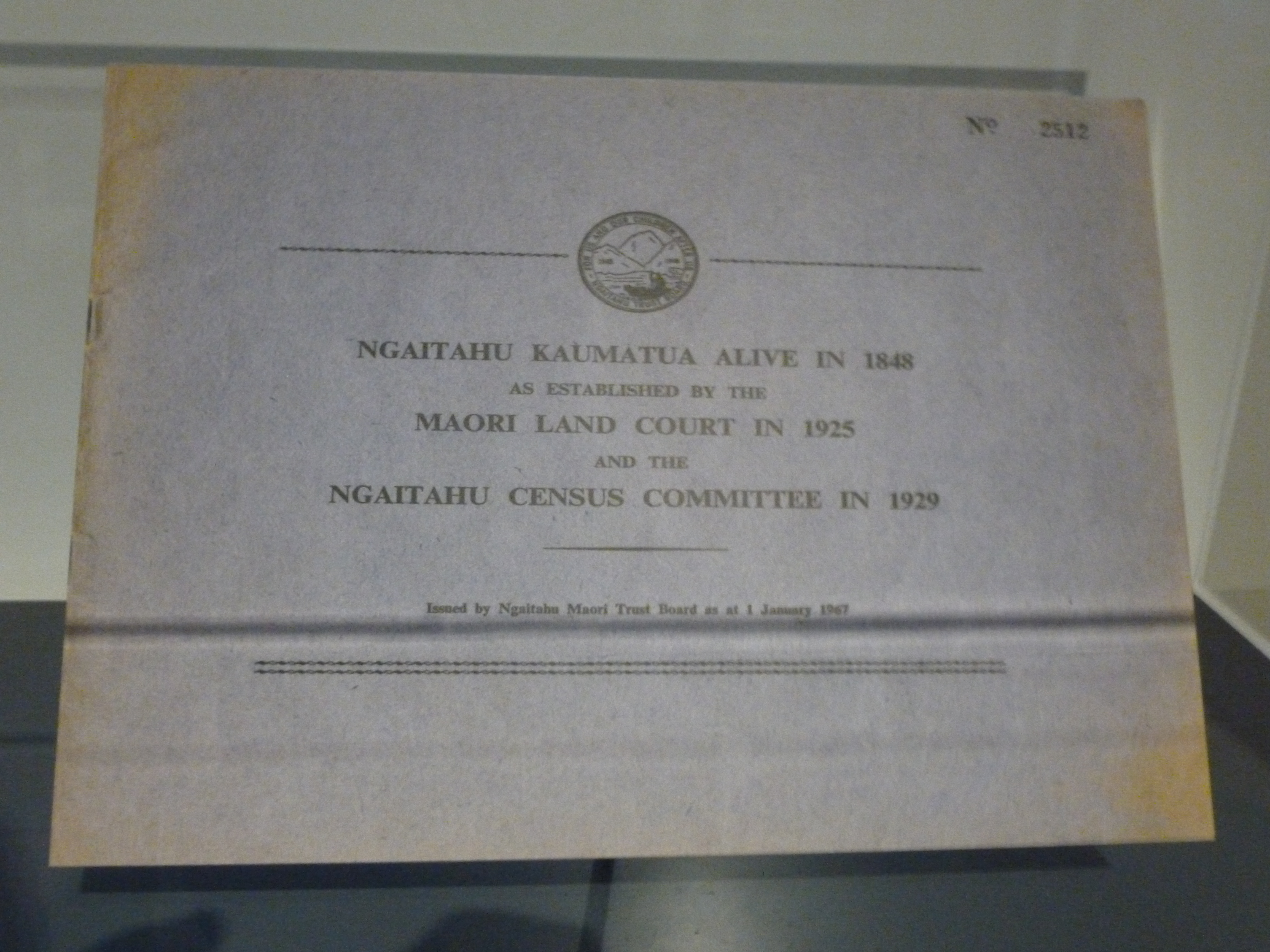 Ngāi Tahu Kaumatua alive in the 1848 - aka The Blue Book from the Dunedin Settlers Museum